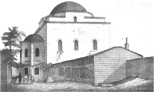 Byzantinai meletai topographikai (1877) Author: Paspatēs, Alexandros Geōrgiou, 1814-1891. [from old catalog] Subject: Inscriptions, Greek Year: 1877 Possible copyright status: NOT_IN_COPYRIGHT Language: English Digitizing sponsor: Google Book contributor: Oxford University Collection: europeanlibraries